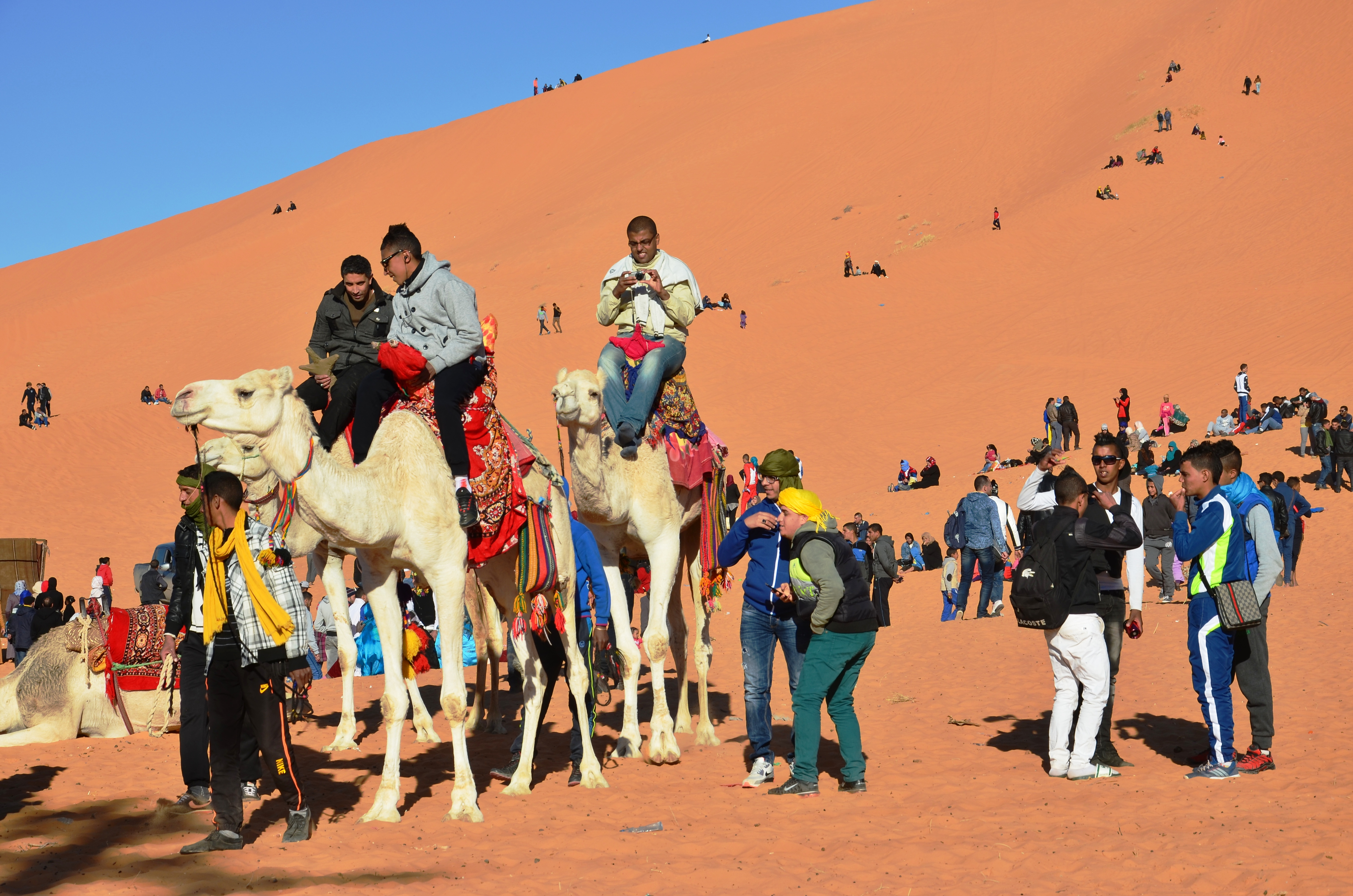 This is an image with the theme "Play" from: Algeria